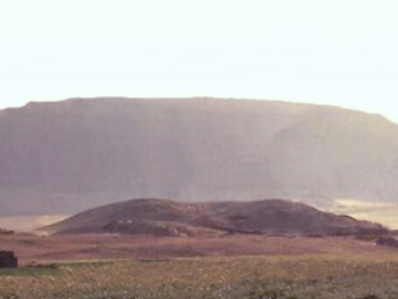 Pyramid of Ahmose, Abydos, 1998